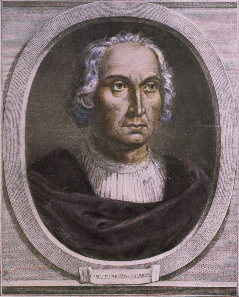 Christopher Columbus, head-and-shoulders portrait, facing slightly right.